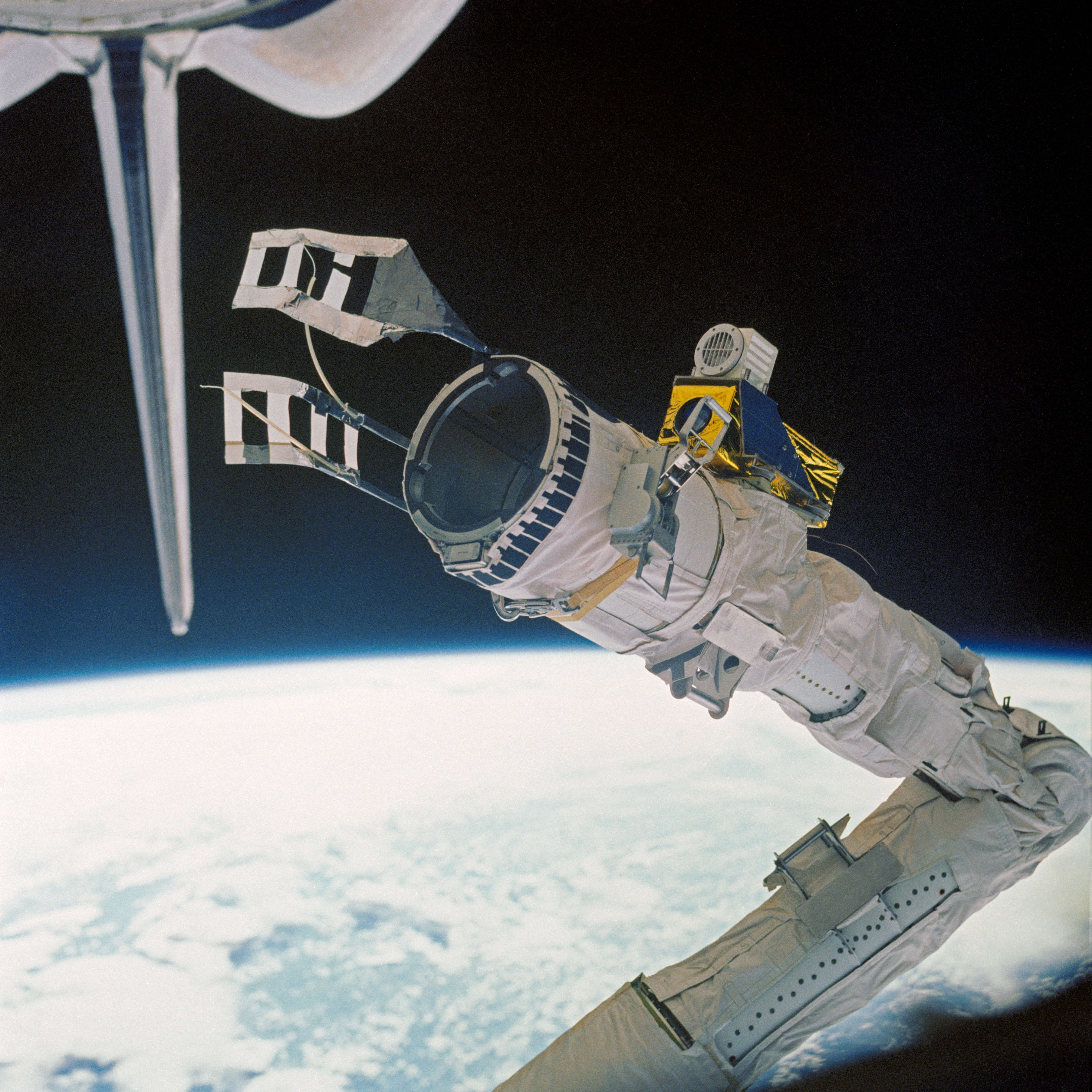 STS51D-39-007 -- On Space Shuttle Mission STS-51D, April 1985, an improvised "fly swatter" is used by the Canadarm to activate the Syncom satellite.